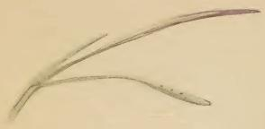 Stainton’s Natural History of the Tineina (1855–1873): Elachista bedellella mined leaf blades of Helictotrichon pratense